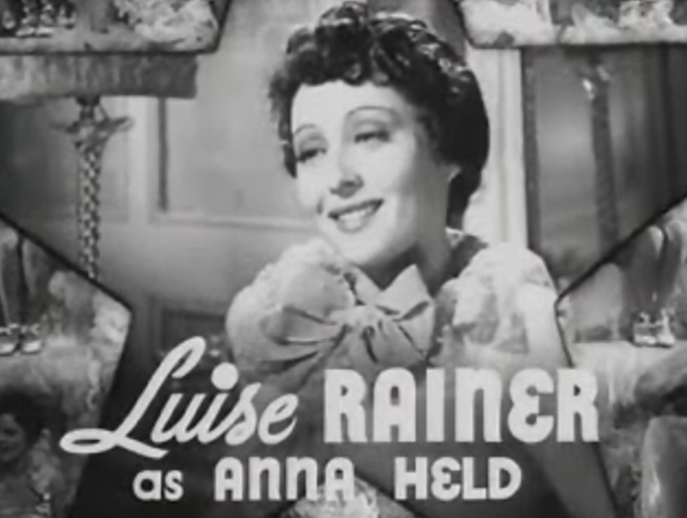 Cropped screenshot of Luise Rainer as Anna Held from the trailer for The Great Ziegfeld